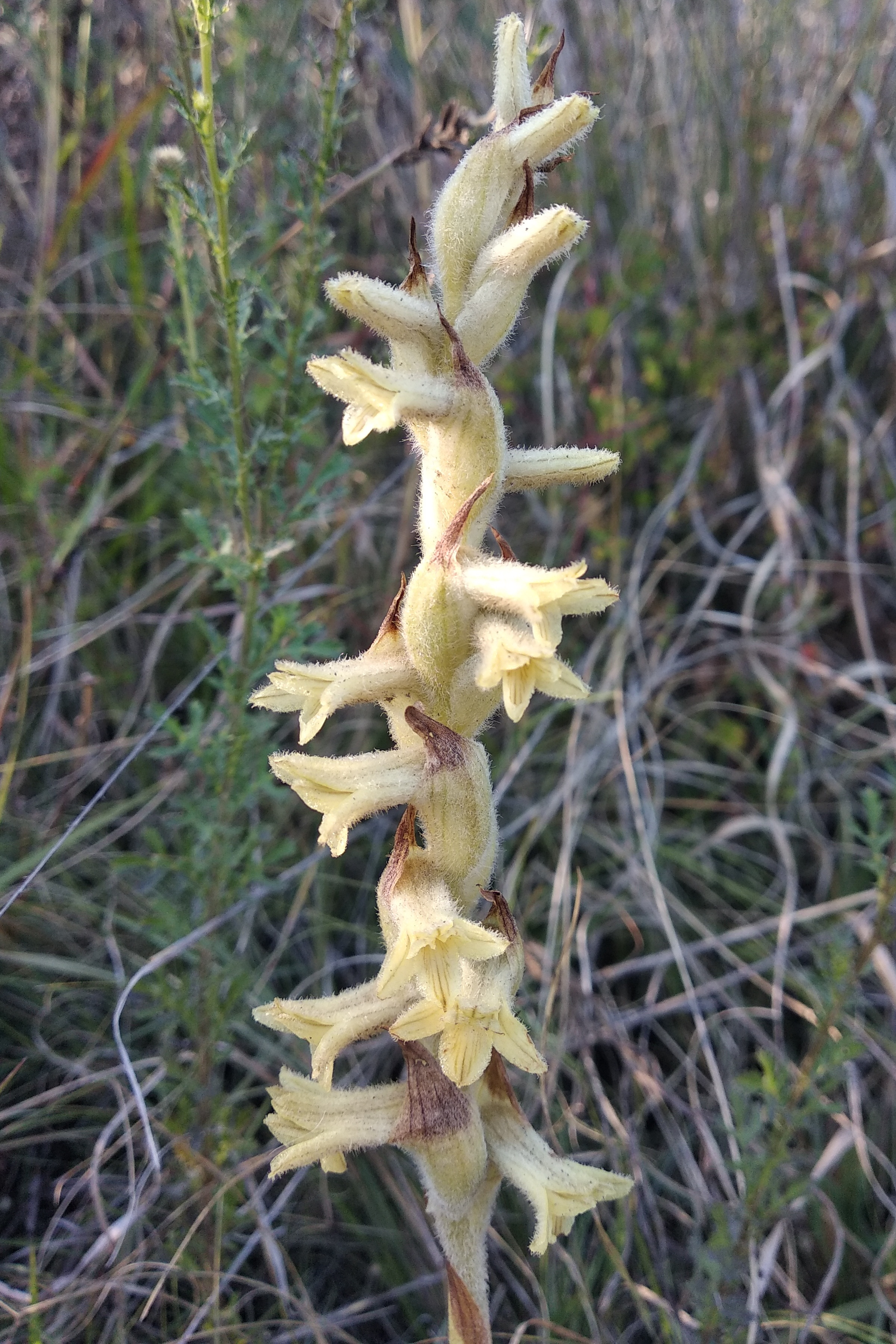 Dichromanthus michuacanus is a terrestrial orchid native of Mexico and the SW United States. Its white flowers bloom roughly from November to January. This photo was taken at cerro Zapotecas, in Cholula, Puebla, Mexico.